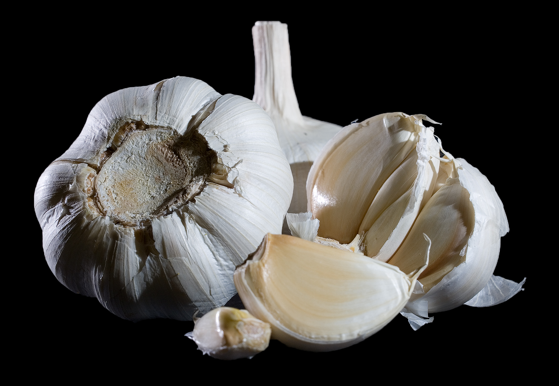 Garlic Bulbs Camera data Camera Canon EOS 400D Lens Canon EF 70-200mm f4L w/ 12mm extension tube Flash Flashes rear left and front right Focal length 87 mm Aperture f/11 Exposure time 1/200 s Sensivity ISO 100